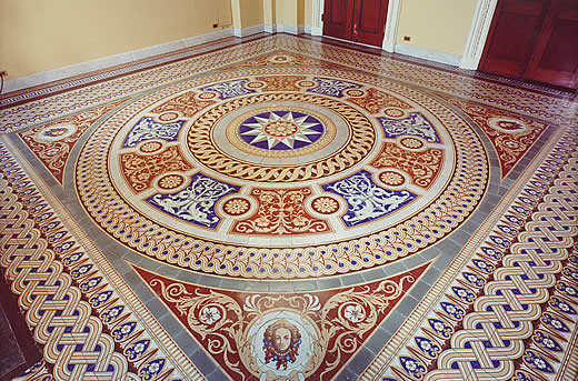 A Minton encaustic tile floor in an office at the United States Capitol.